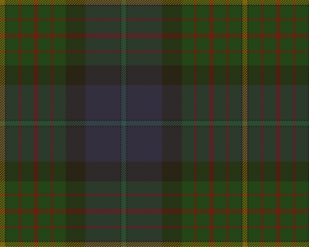 The official tartan of the state of California. I drew it using the thread counts at California State Tartan.